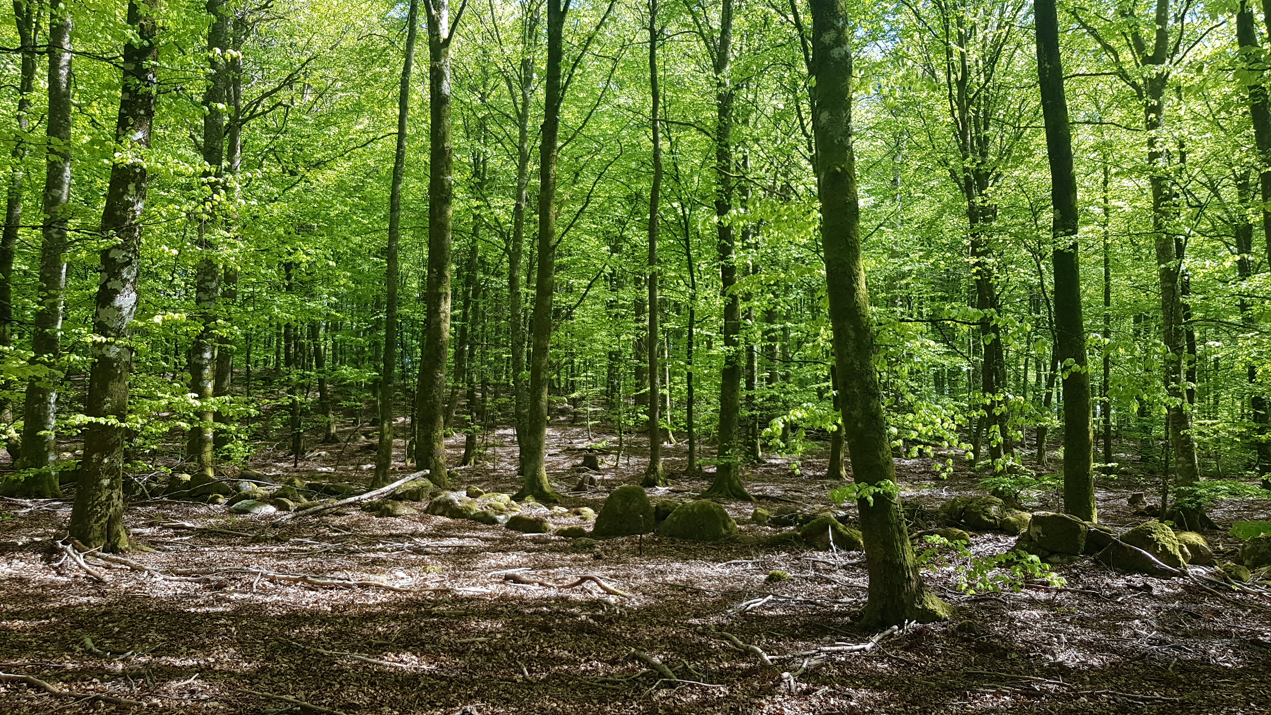 Beech forests within the nature reserve "Åminne Naturreservat"